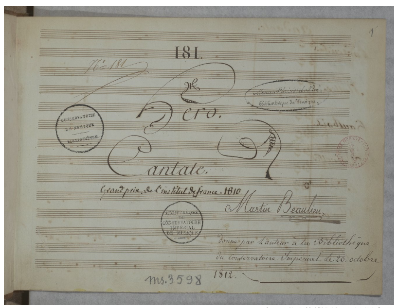 Hero, music, Beaulieu, Grand prix de Rome. 1810.